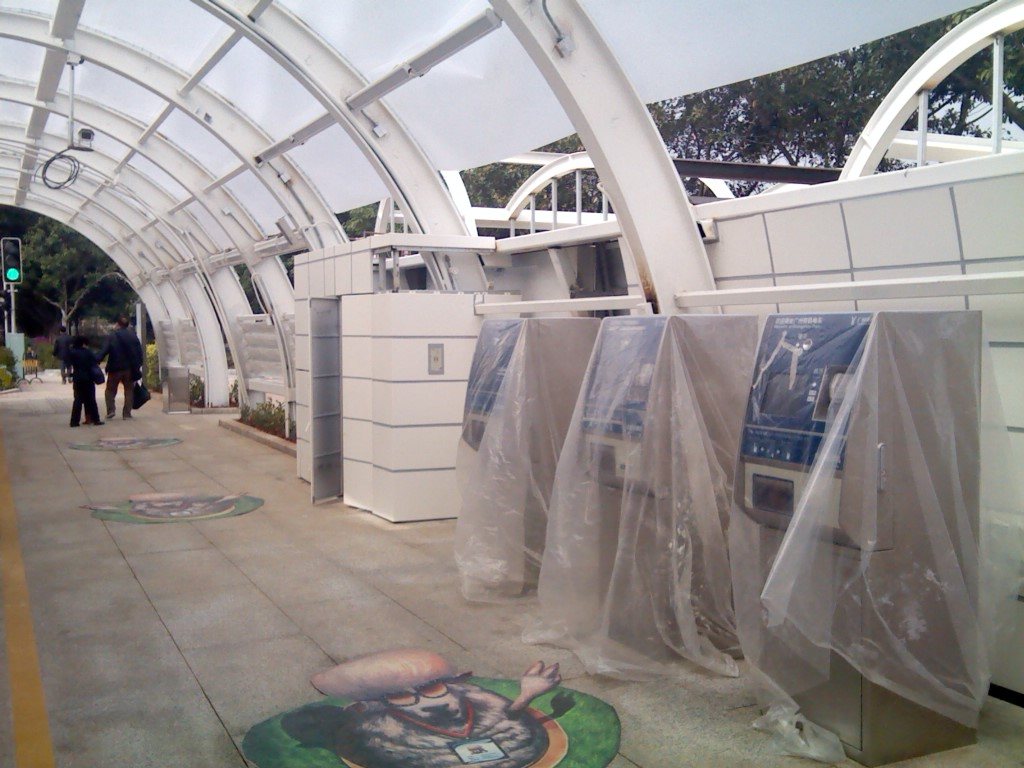 车站月台（广州塔方向）